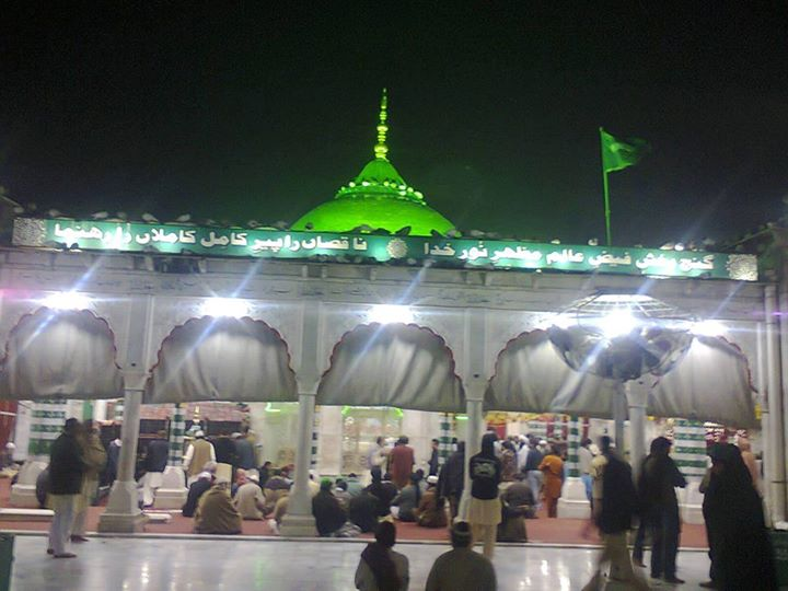 Data Durbar Complex This is a photo of a monument in Pakistan identified as the PB-P-105